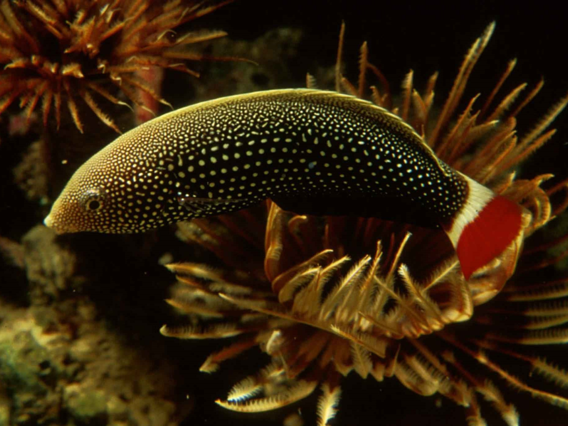 Image title: Red tailed wrasse fish (Anampses chrysocephalus) underwater labrus mixtus Image from Public domain images website